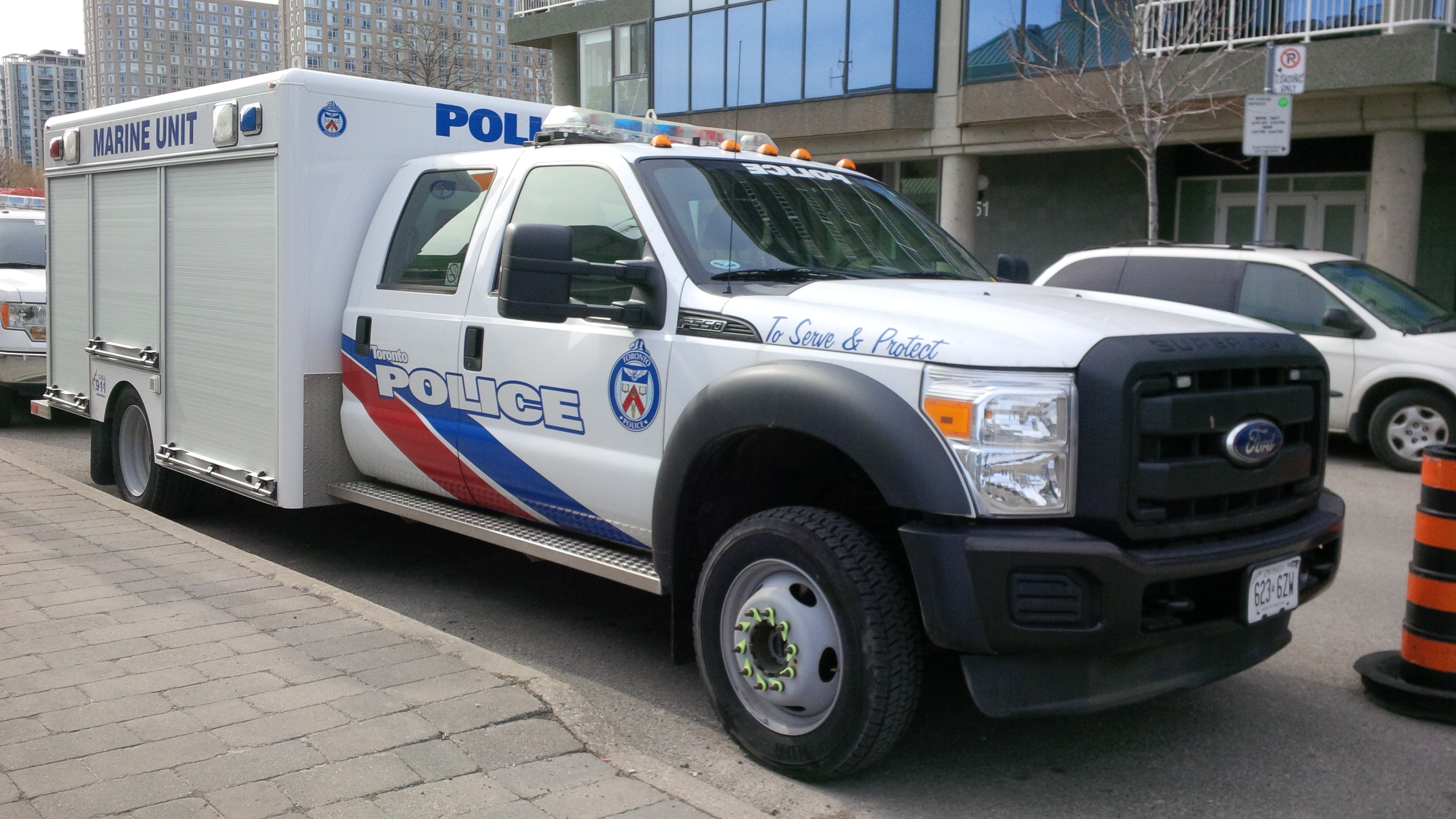 Toronto Police Marine Unit vehicle (MU36)